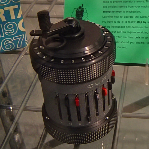 Curta mechanical calculator, on display at the Computer History Museum in Mountain View, California.